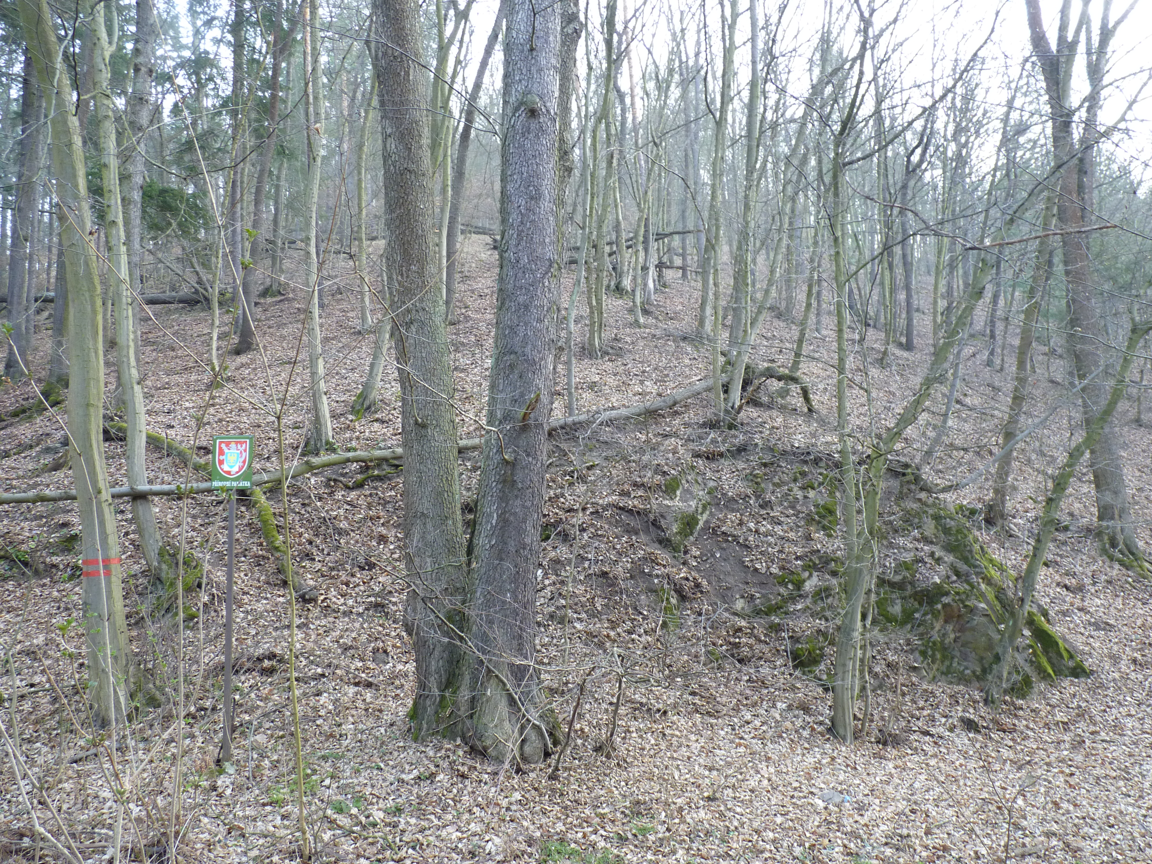 Kněžnice (natural monument). Brno-Country District, South Moravian Region, Czech Republic Project: Chráněná území